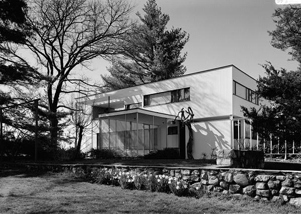 1938 Walter Gropius house, 68 Baker Bridge Road, Lincoln, Middlesex County, MA.